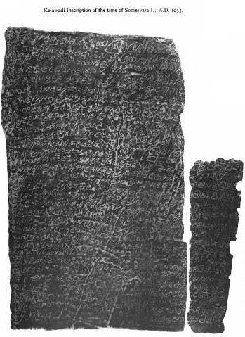 Kelawadi is a village 10 miles north of Badami in the modern Bagalkot district (old Dharwad district). The inscription which is in old Kannada script and language is dated Saka 975 (or 1053 AD) refers itself to the reign of Western Chalukya King Somesvara I. ref source:Epigraphia Indica and Record of the Archaeological Survey of India, Volume 4, pp.259-262, edited by E. Hultzsch